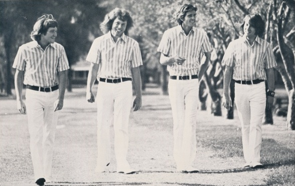 Four original members. RB Smith, Scott Nelson, Gregg Tipple, Phil Barry